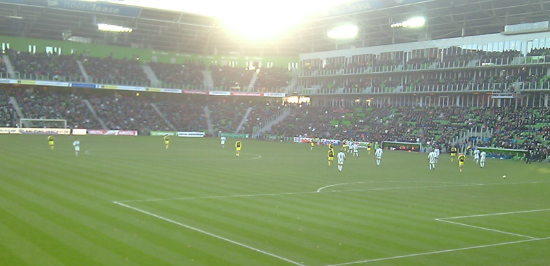 Euroborg in 2010 - during a match